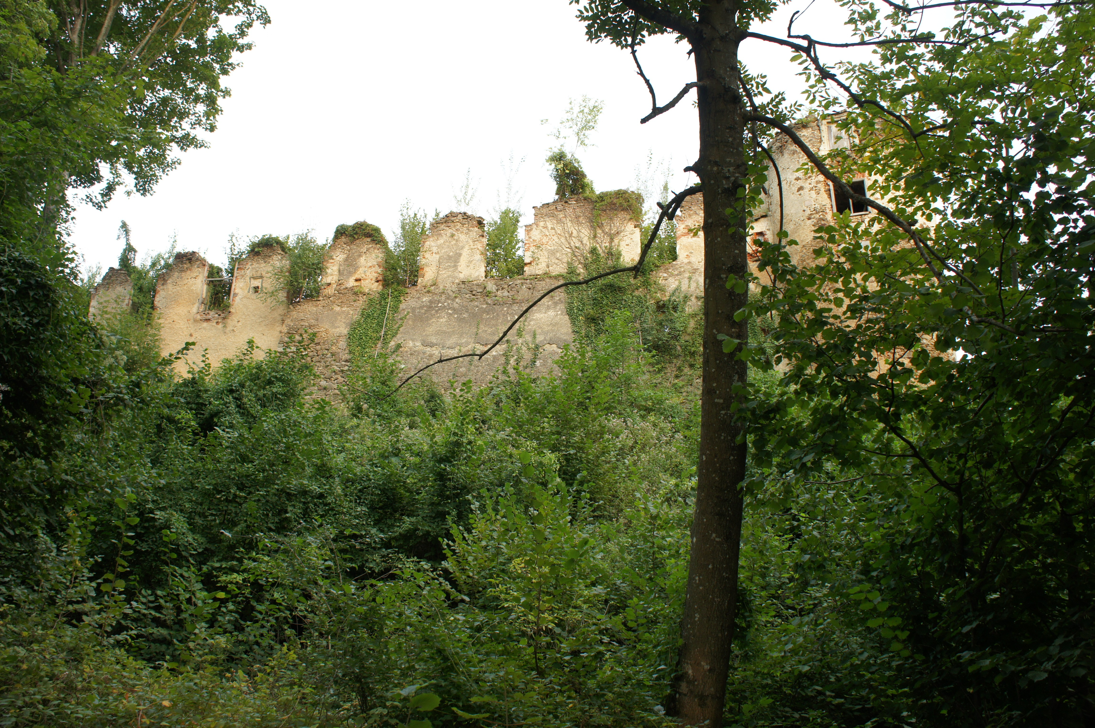 Castle ruin Bärnegg, Elsenau, Schäffern, Austria